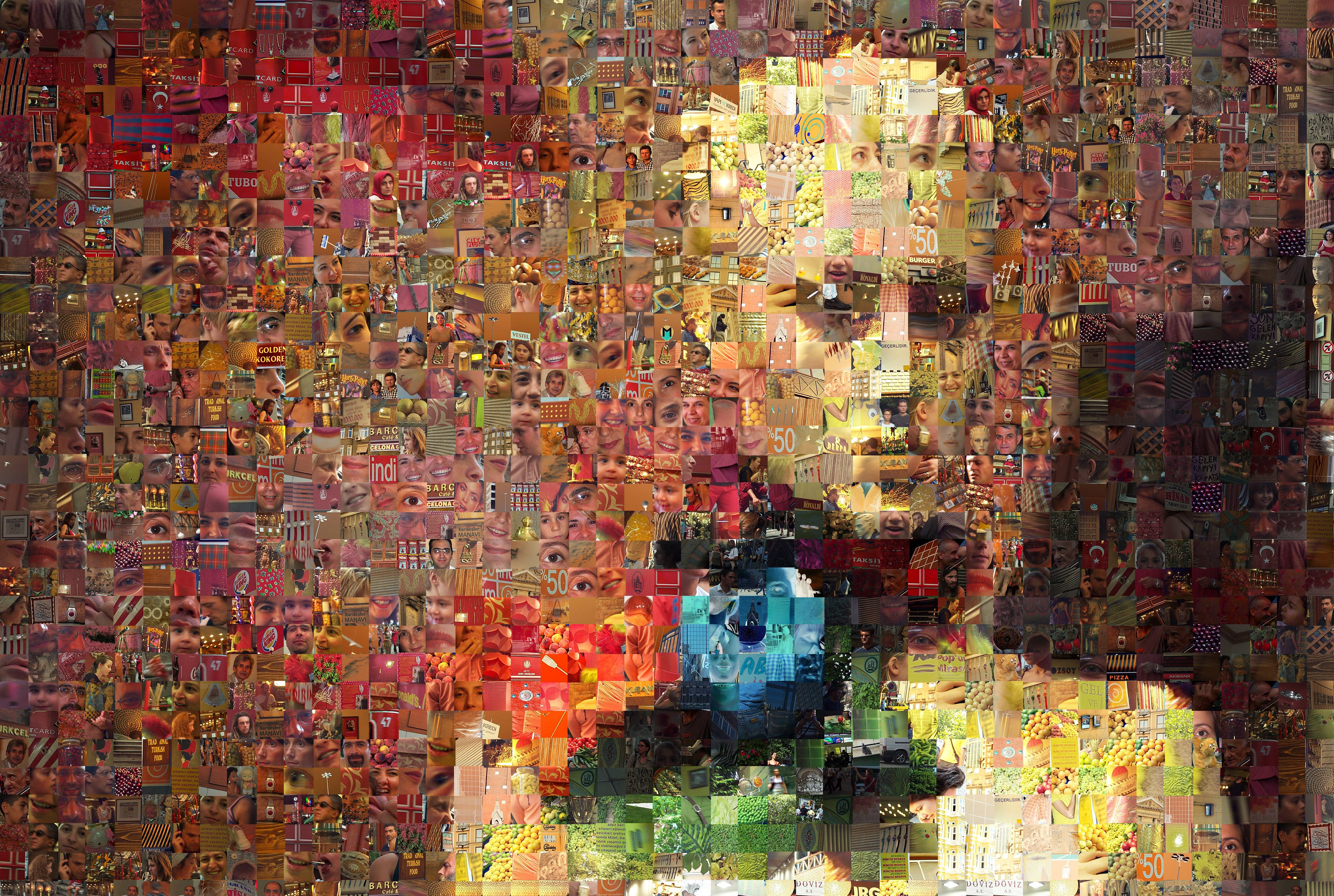 Imagemosaics from Beyoglu / Istanbul This JPG graphic was created with GIMP.